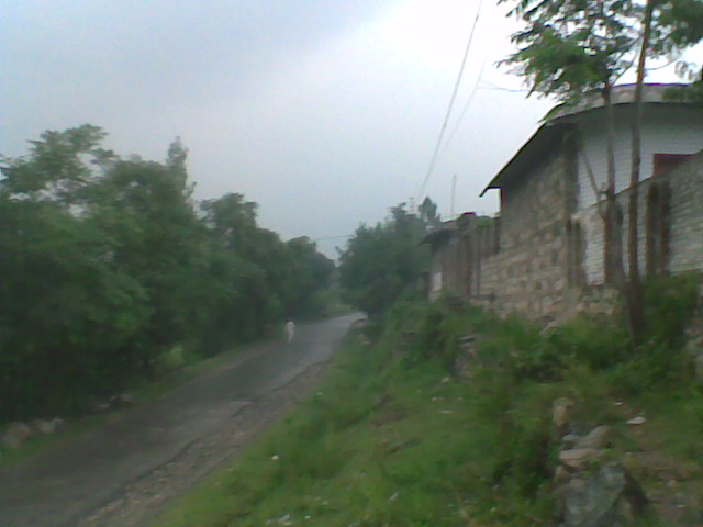 view of Nagotal Malak home